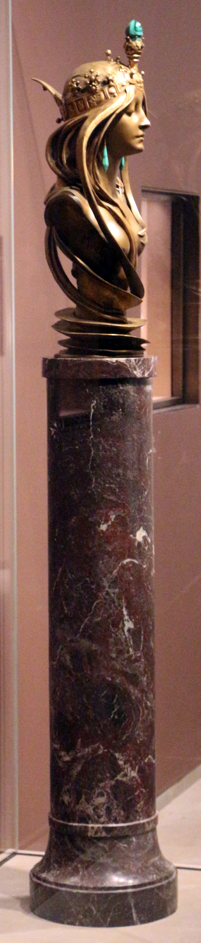 Fin de Siècle Museum